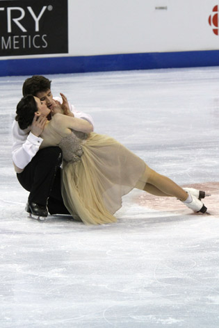 2010 Canadian Figure Skating Championships - Tessa Virtue and Scott Moir